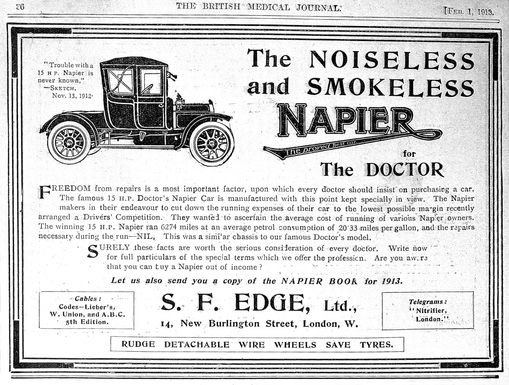 Transport advertisment, Napier. General Collections Keywords: medical transport